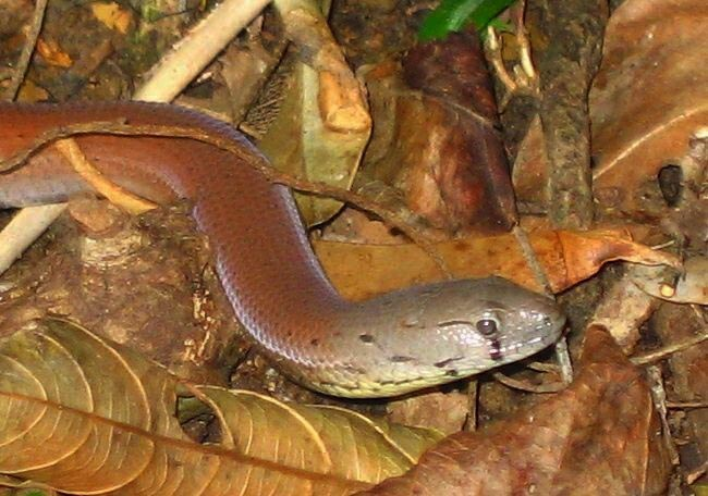 Common Scalyfoot. Legless lizard